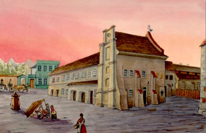 Holy Spirit church and hospital in Kraków